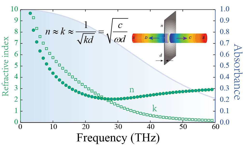 Theoretical absorption and corresponding dispersion for ultra-thin CPA